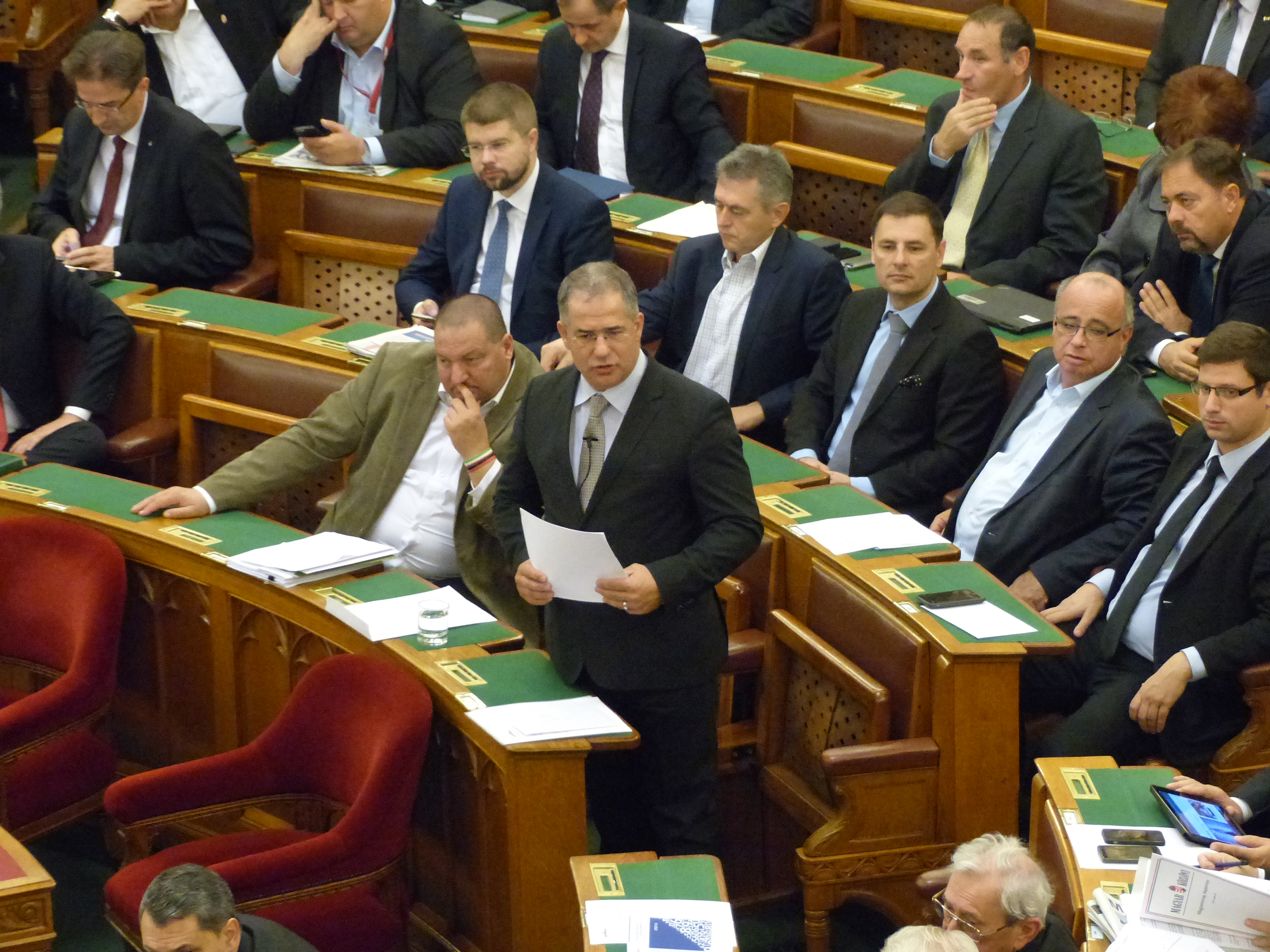 Kósa Lajos (Fidesz). Taken on the 17th of October, 2016. Országház, Budapest, Hungary. General debate on the 7th Amendment of the Constitution of Hungary.